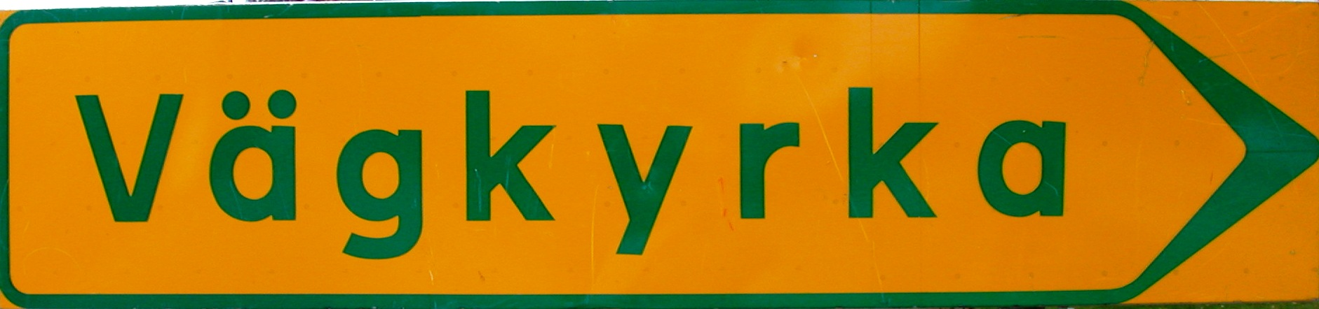 A swedish sign for a road church